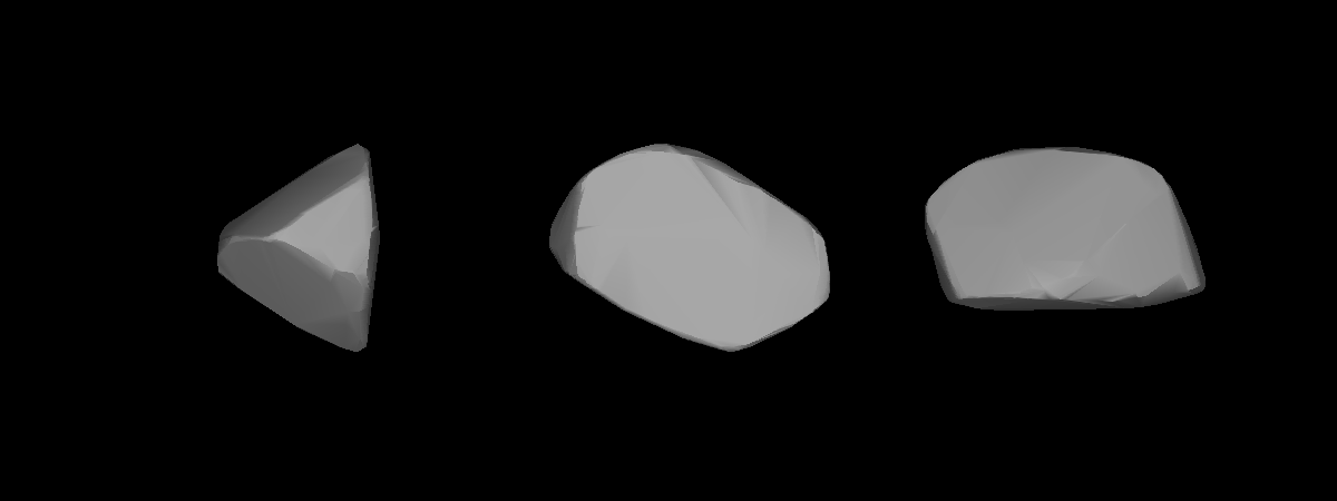 A three-dimensional model of 867 Kovacia that was computed using light curve inversion techniques.